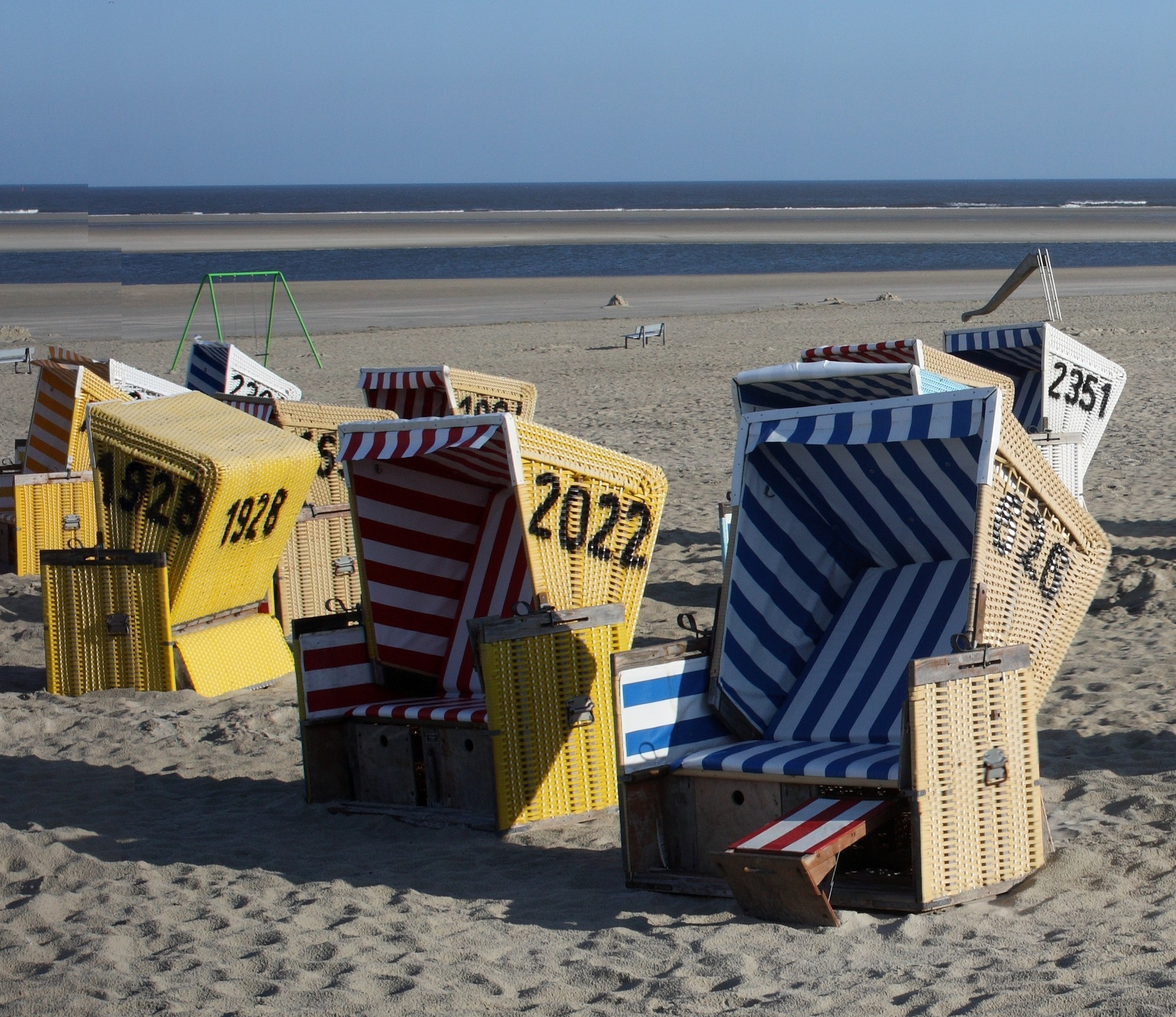 Roofed wicker beach chairs (Strandkorb) on the beach of Langeoog island.